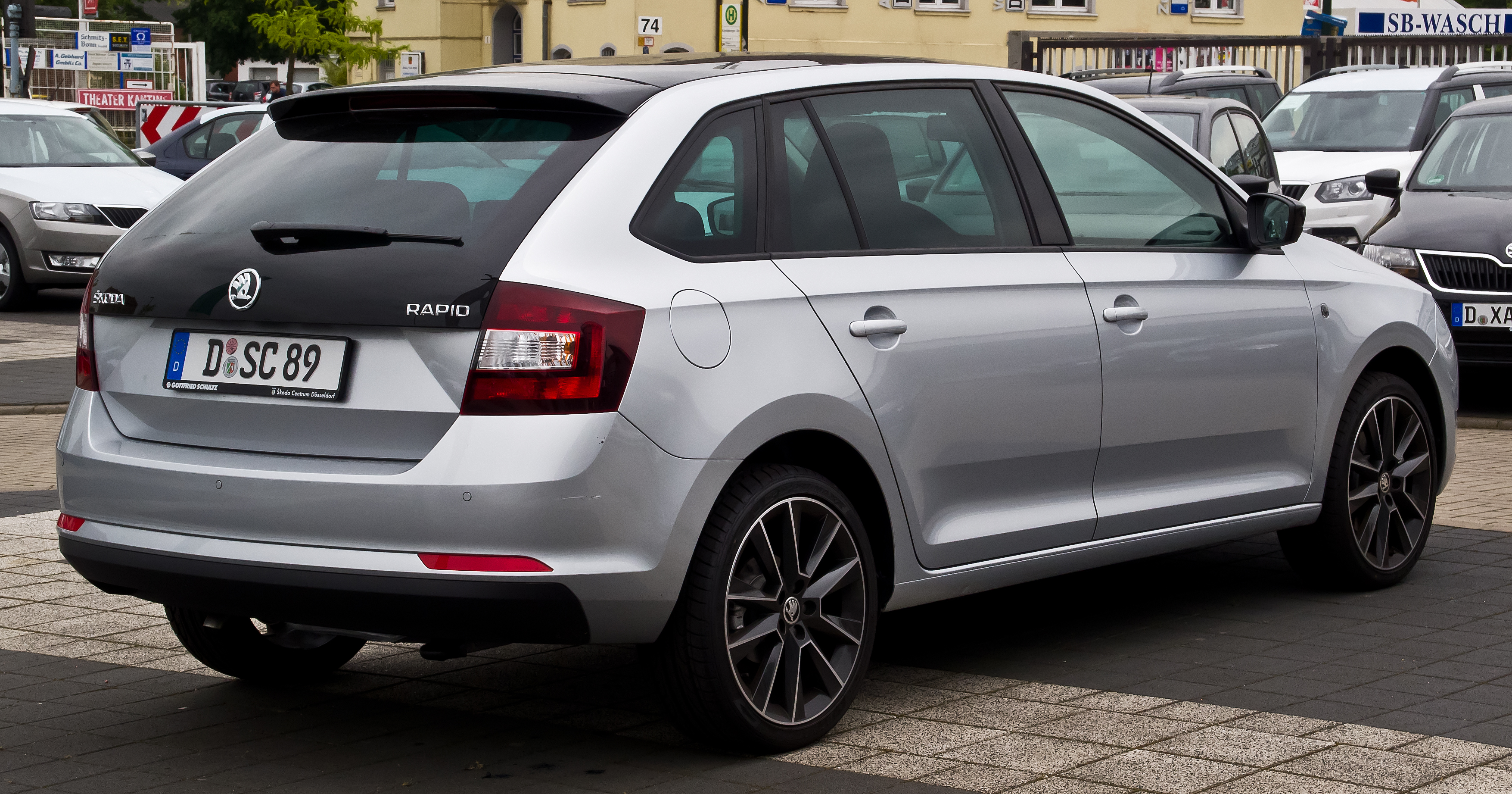 Skoda Rapid Spaceback 1.2 TSI Style Plus